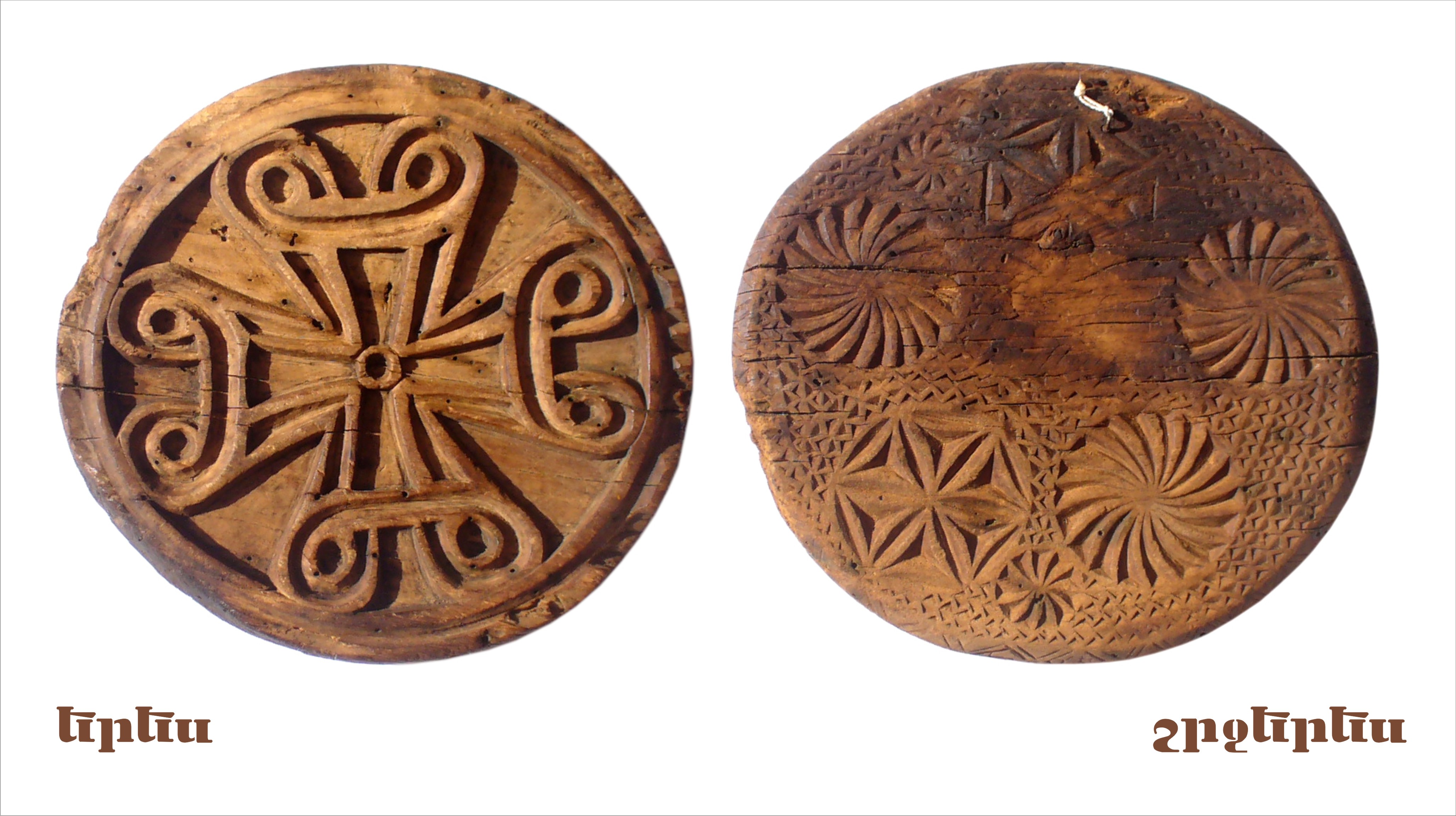 Gata stamp